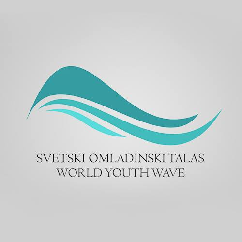 Организација која стоји иза Међународне Студентске Недеље